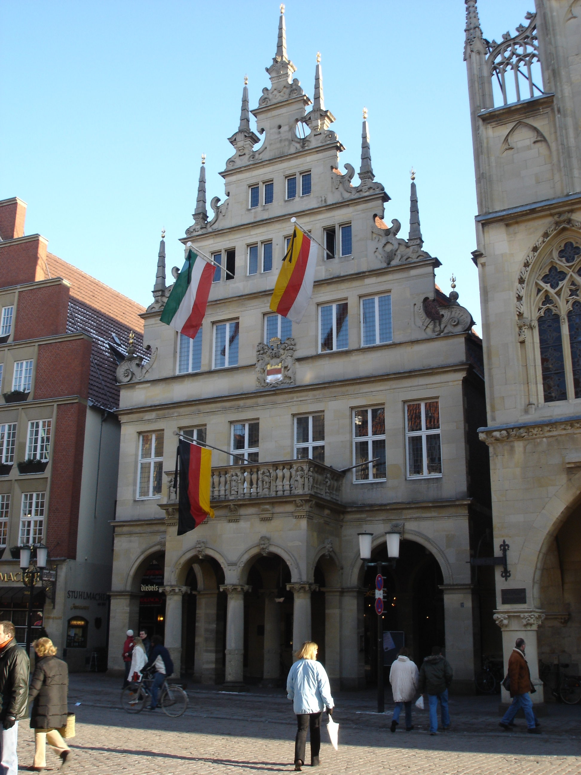 The "Stadtweinhaus" in Münster, Westphalia, Germany (on January 28 2006 with Flags half-mast for the former Bundespräsident Johannes Rau)